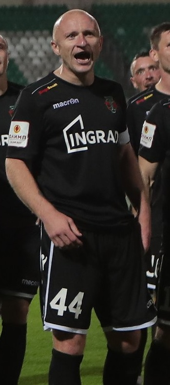 Artyom Samsonov with FC Torpedo Moscow after a game against FC Avangard Kursk.